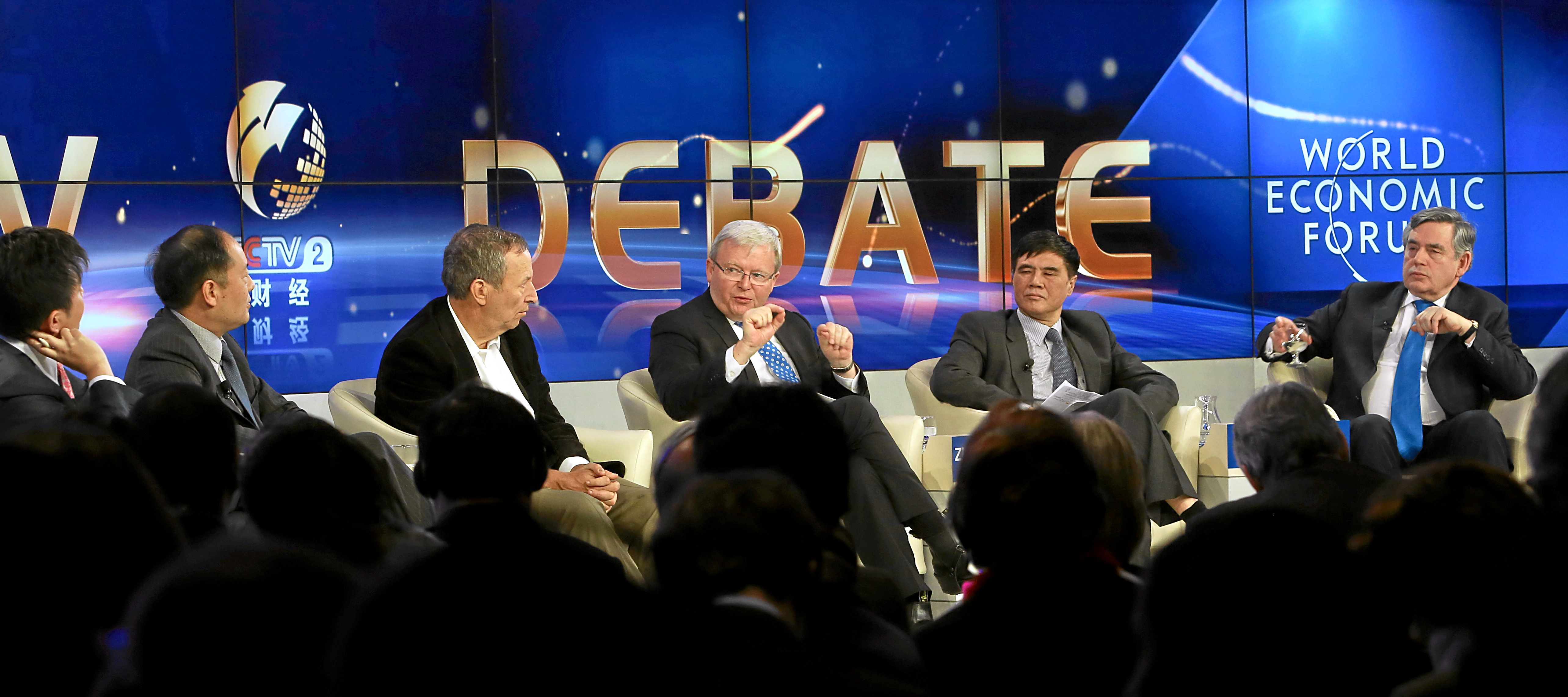 DAVOS/SWITZERLAND, 26JAN13 - (From left) Rui Chenggang, Director and Anchor, China Central Television, People's Republic of China, John Zhao, Chief Executive Officer, Hony Capital, People's Republic of China, Lawrence H. Summers, Charles W. Eliot University Professor, Harvard University, USA, Kevin Rudd, Member of Parliament, Australia; Global Agenda Council on Fragile States, Zhang Xiaoqiang, Vice-Chairman, National Development and Reform Commission, People's Republic of China, Gordon Brown, UN Special Envoy for Global Education; Prime Minister of the United Kingdom (2007-2010), Jin-Yong Cai, Executive Vice-President and Chief Executive Officer, International Finance Corporation (IFC), Washington DC, on the panel during the Session 'China's Next Global Agenda' at the Annual Meeting 2013 of the World Economic Forum in Davos, Switzerland, January 26, 2013.. . Copyright by World Economic Forum. . Monika Flueckiger